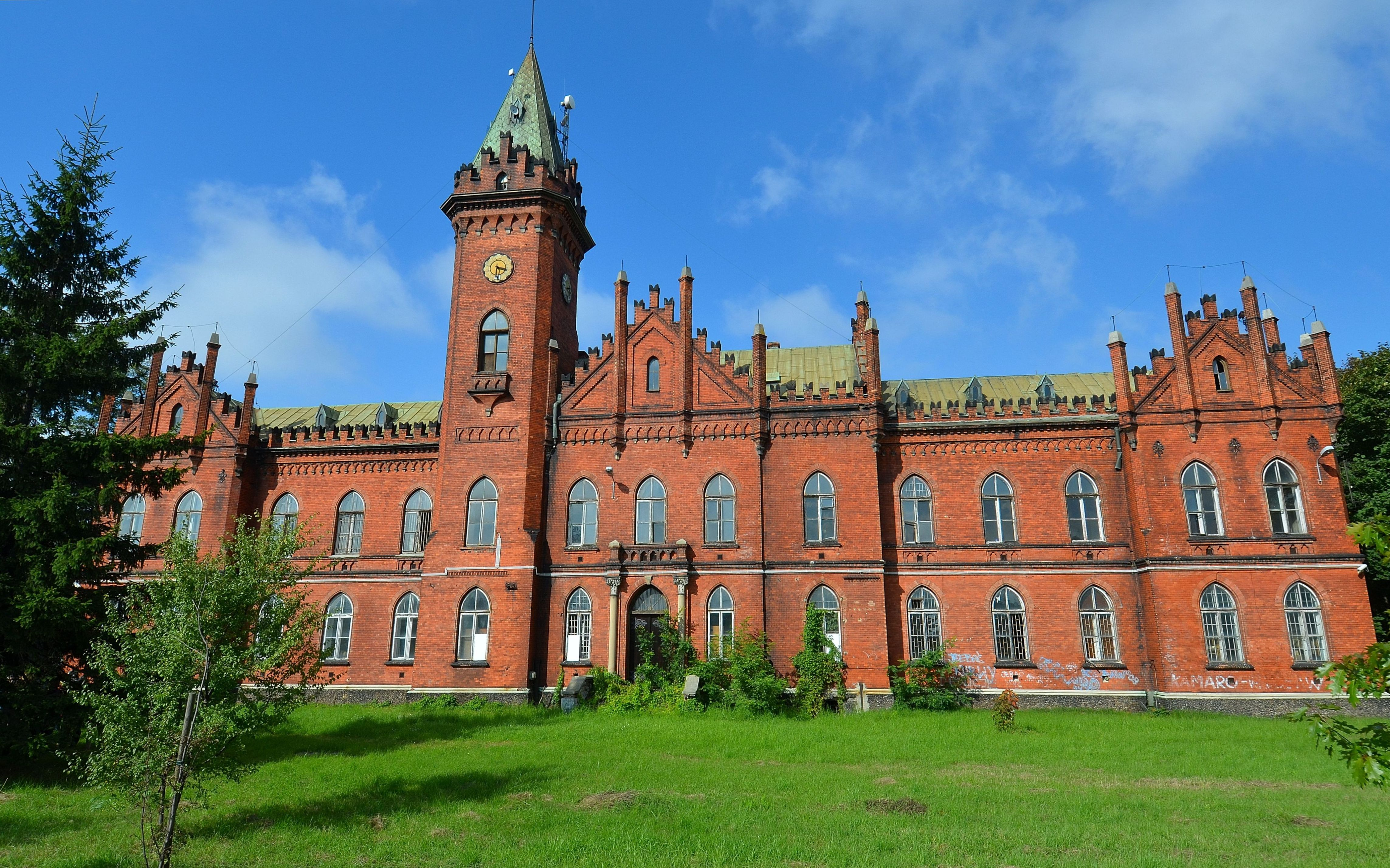 Building of the Management Board of Zakłady Naprawcze Taboru Kolejowego (Railway Repair Works) in Pruszków